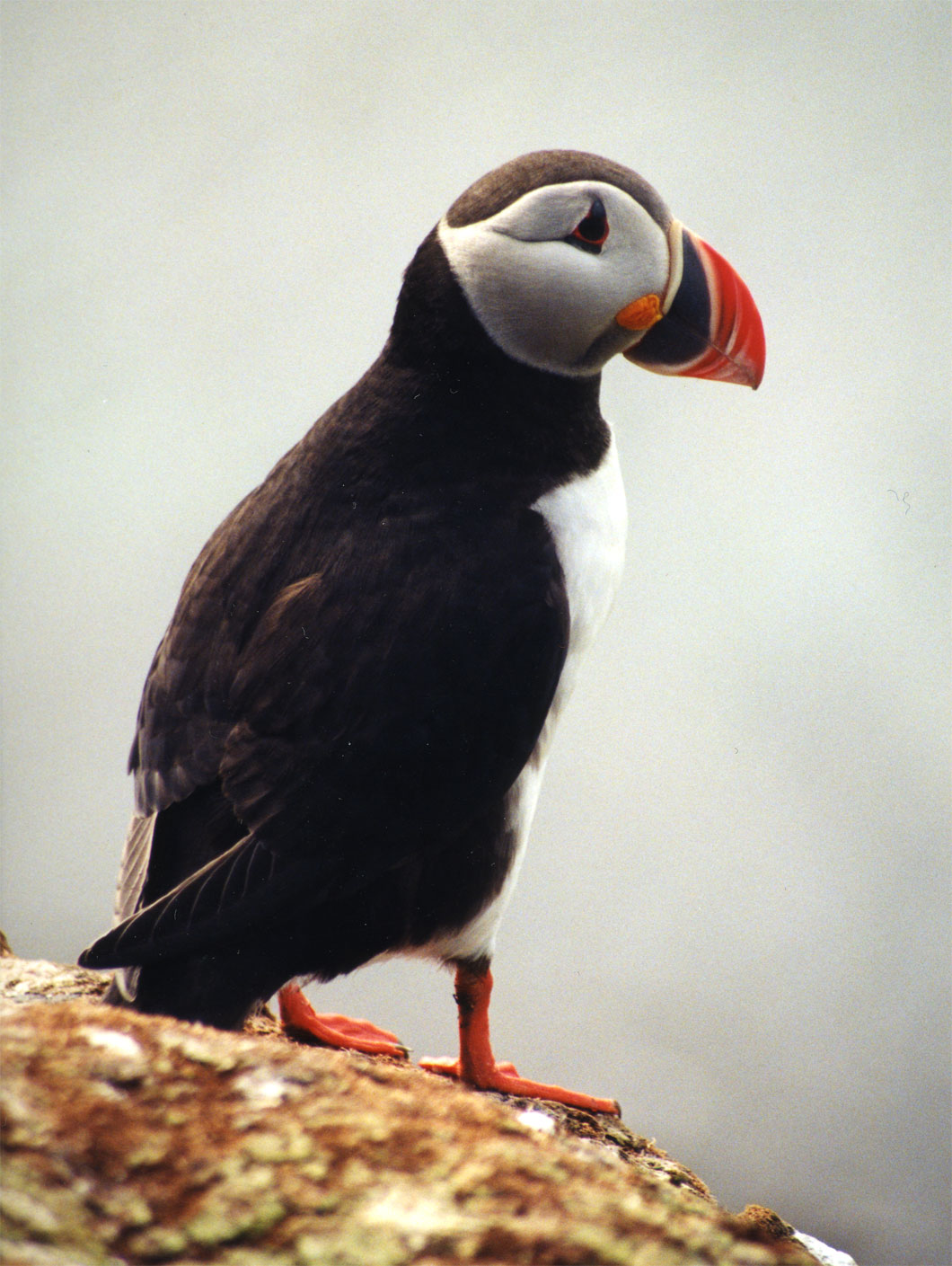 Description: Atlantic Puffin (Fratercula arctica) Source: picure taken by Hanno in 1996 on the island of Hornøya (Northern Norway) Licence: released under the GNU Free Documentation Licence and the cc-by-sa-2.5 Licence by the photographer